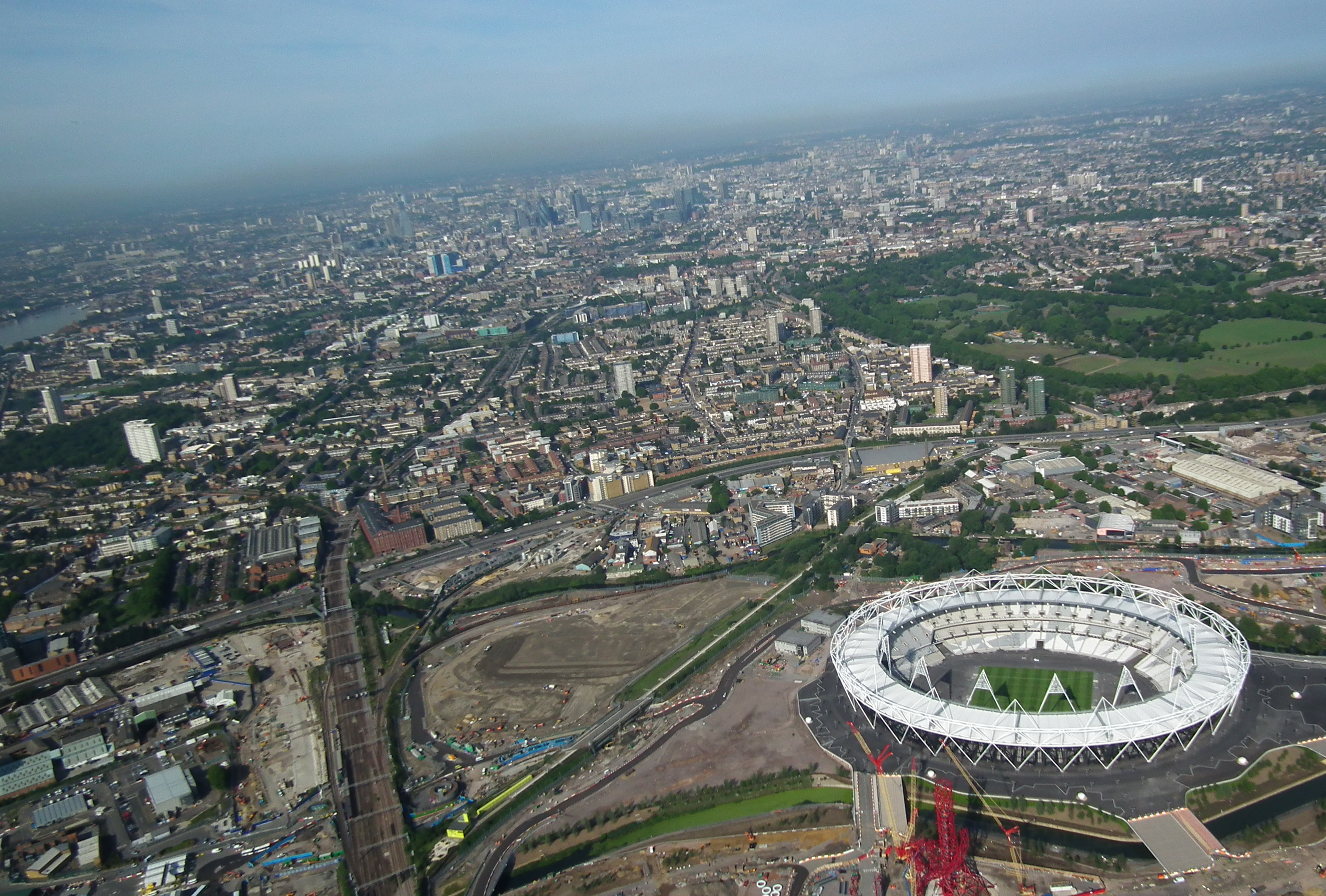 Construction of Olympic Park, London — (June 2011). Aerial photo of the Olympic Park main stadium and Orbit tower under construction, and Stratford—London.